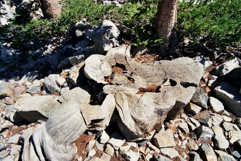 Prometheus (tree), a Great Basin Bristlecone Pine (Pinus longaeva) : The cut stump of the tree. Photo by James R Bouldin.